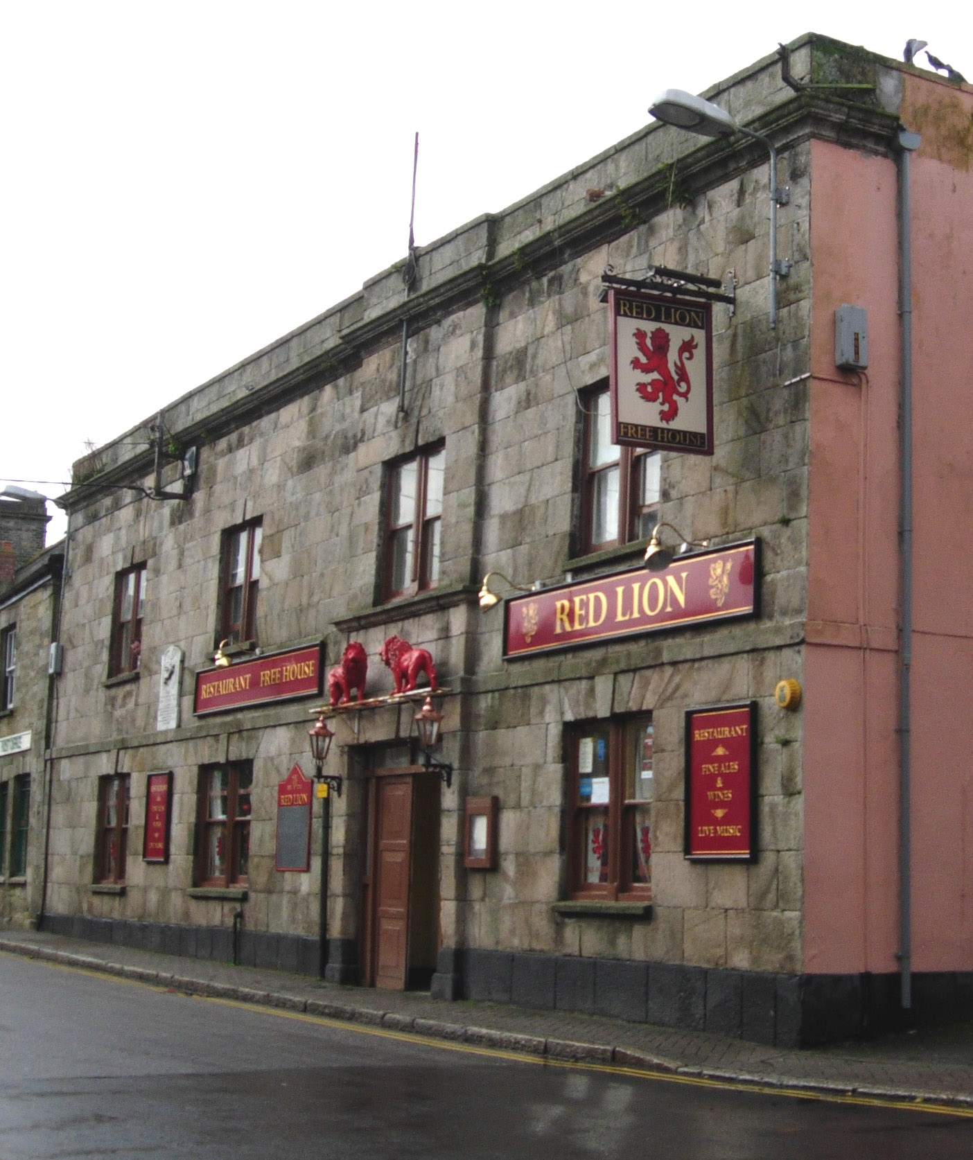 The Red Lion Pub in St. Columb Major, Cornwall, England.